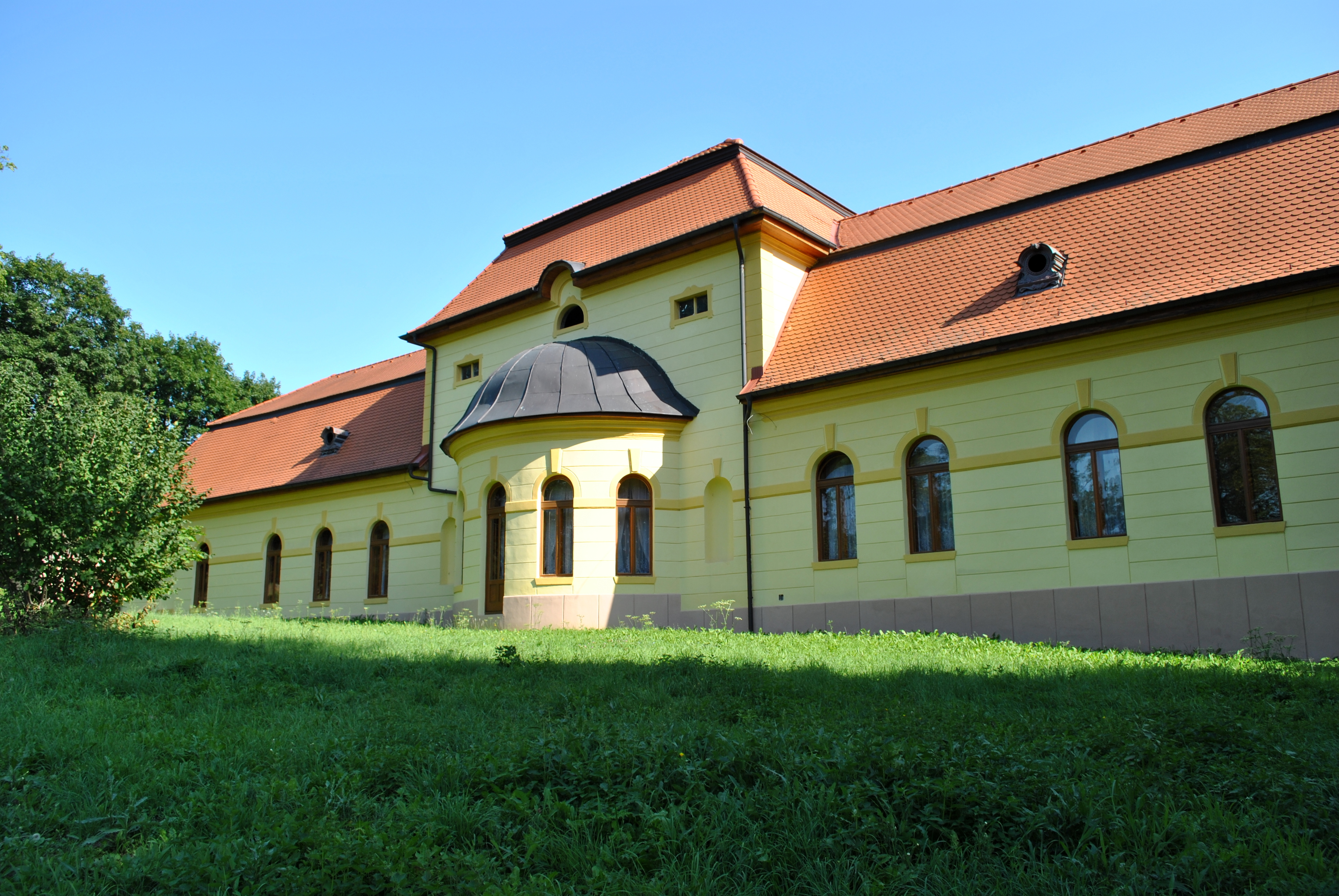 Bardoňovo, manor